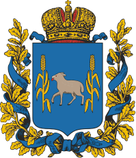 Kalisz gubernia (Russian empire), coat of arms